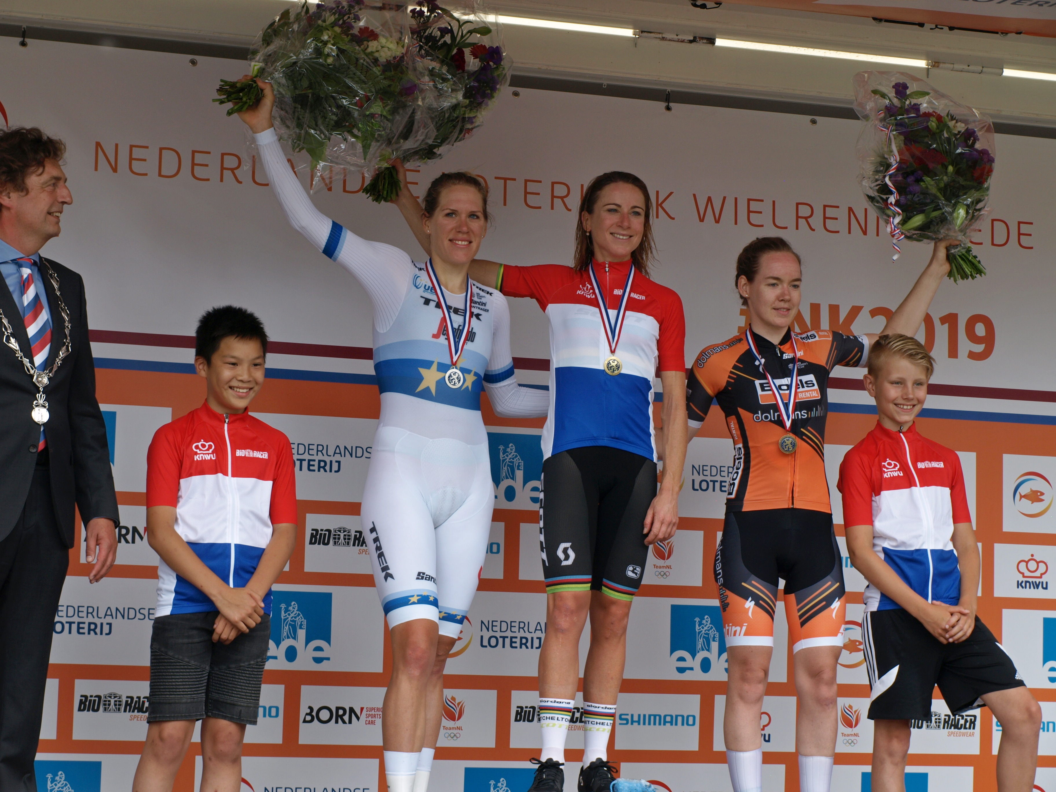 Dutch Championship Cycling 2019 Time Trial Women. Left:Ellen van Dijk (silver). Center: Annemiek van Vleuten (gold). Right: Anna van der Breggen (bronze). On the far left the mayor of Ede, René Verhulst.